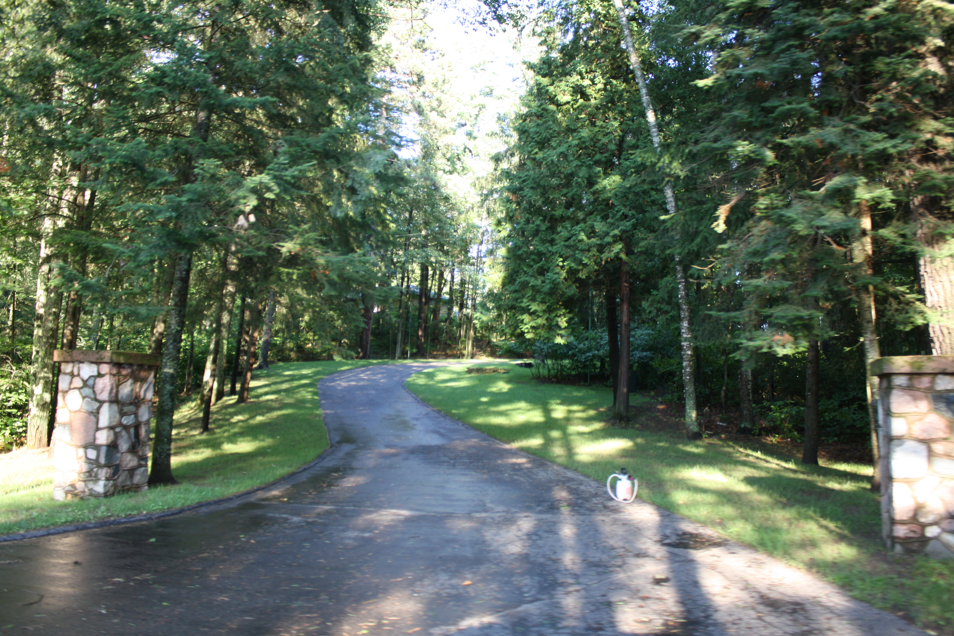 The Jabodon entrance near Eagle River, Wisconsin. It is listed on the National Register of Historic Places.